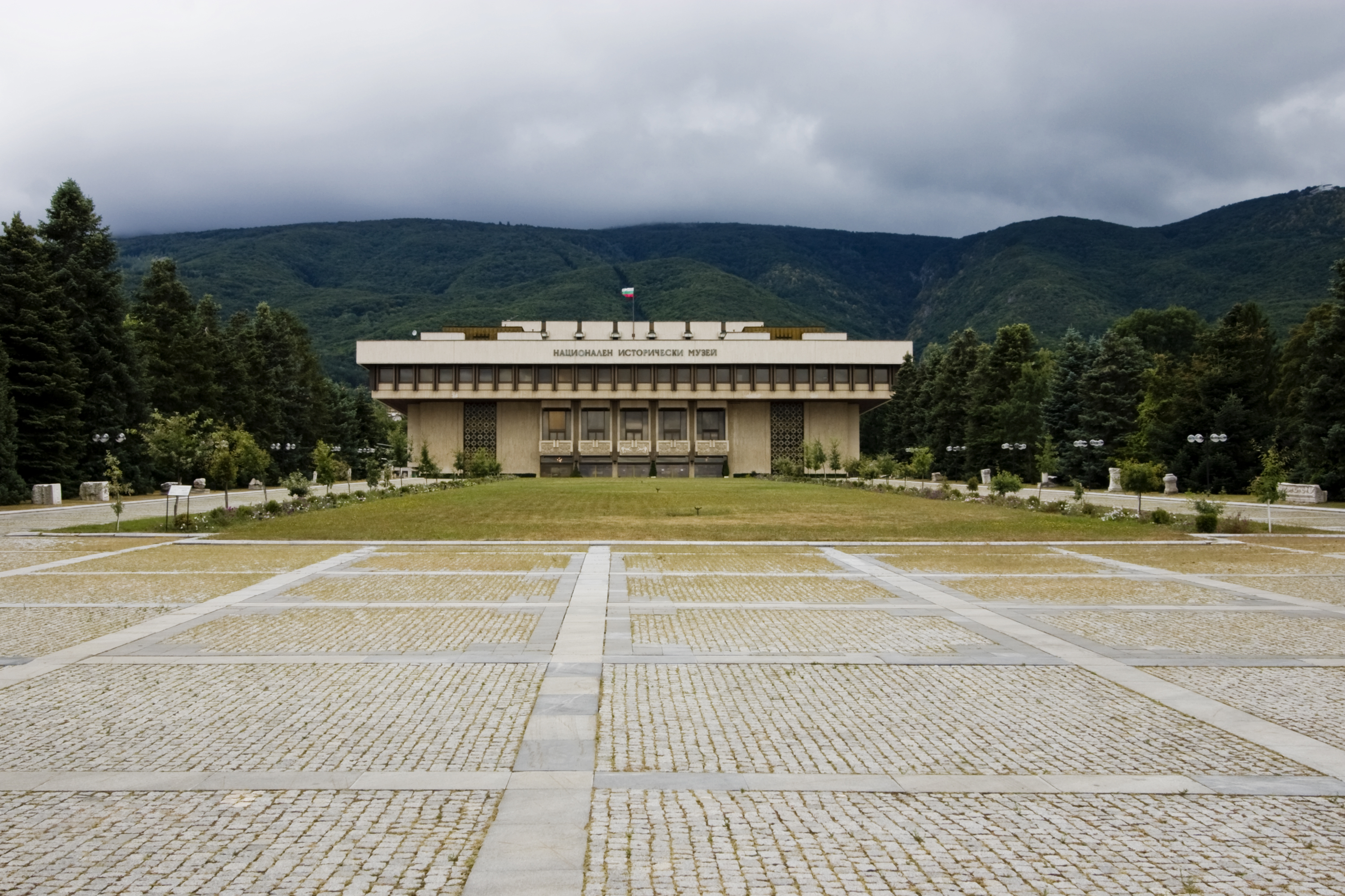 The museum was moved to a former governmental residence at Boyana in 2000 and currently stores and owns over 650,000 objects, with about 10% of those on display.